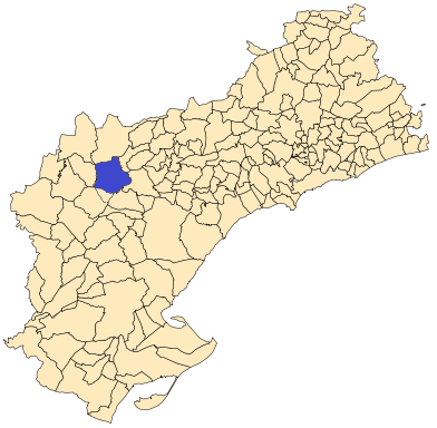 Ascó